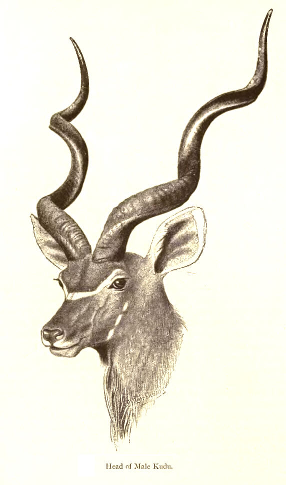 Head of Kudu antelope